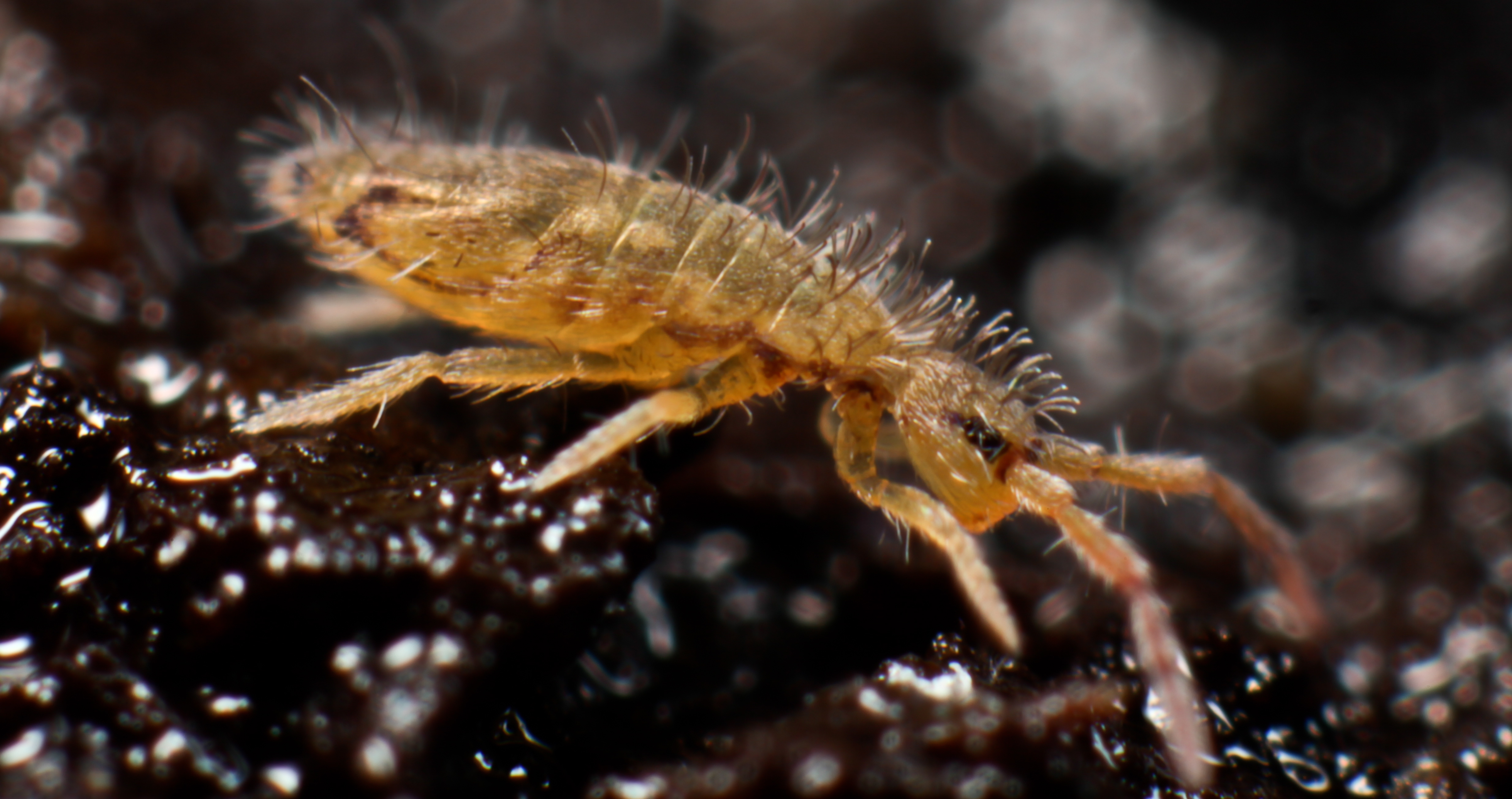 Entomobrya nicoleti from Littleton, England, United Kingdom.